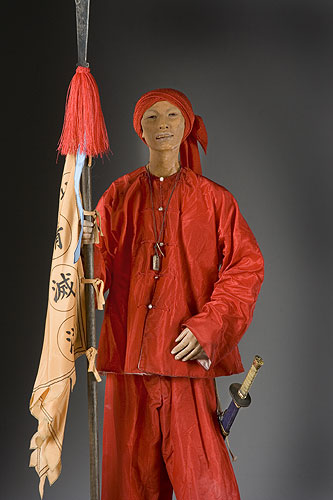 Historical Mixed Media Figure of Chinese Boxer revolutionary produced by artist/historian George S. Stuart and photographed by Peter d'Aprix. This image, from the George S. Stuart Gallery of Historical Figures® archive ( is provided for all uses with appropriate attribution. Any derivatives must be shared in the same manner. Contributor mharrsch is webmaster for the gallery site.